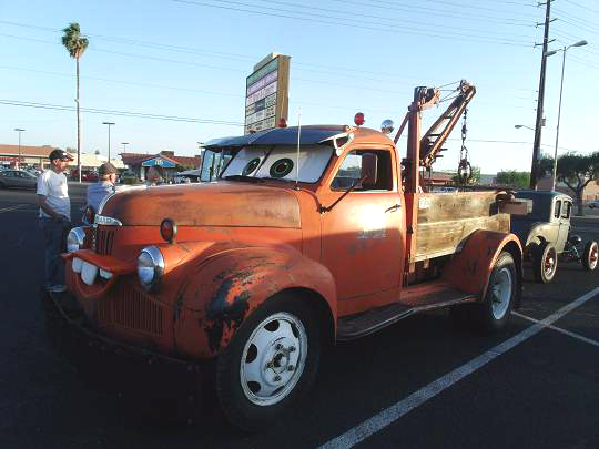 Mater the tow truck imitator at a car show